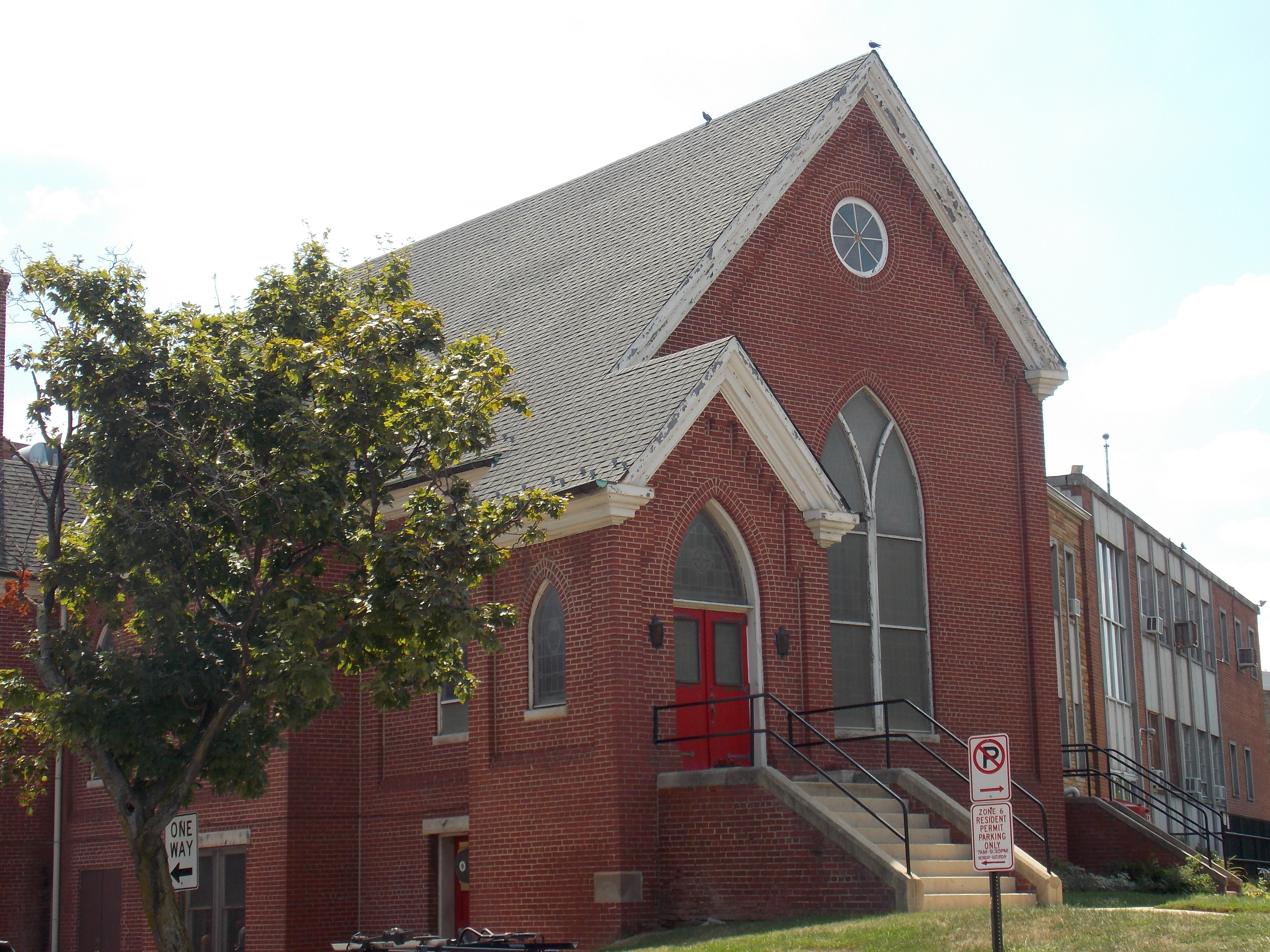 Washington City Church of the Brethren in the Capitol Hill neighborhood of Washington, D.C.